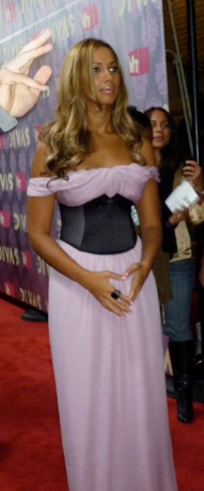 Leona Lewis on the Red Carpet at Vh1 Divas 2009.